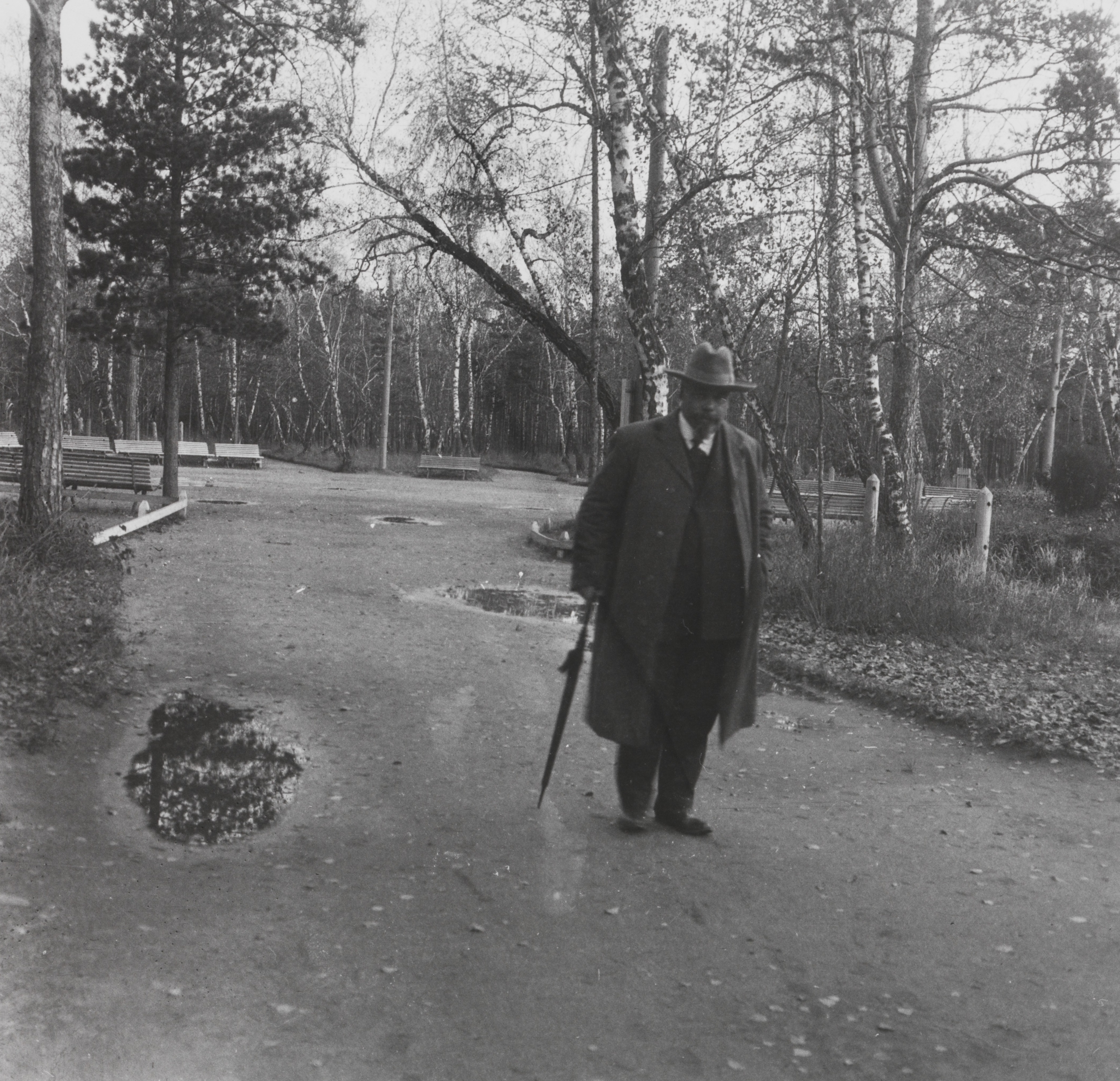 Stephan Vasilievitsj Vostrotin (gold mine owner from Yeniseisk) walking in a park. One of the pictures from the journey to Siberia between Aug. 2 and Oct. 26, 1913. Fridtjof Nansen continued his trans-Siberian journey by railroad, some of it recently finished, from Krasnoyarsk all the way to Vladivostok.